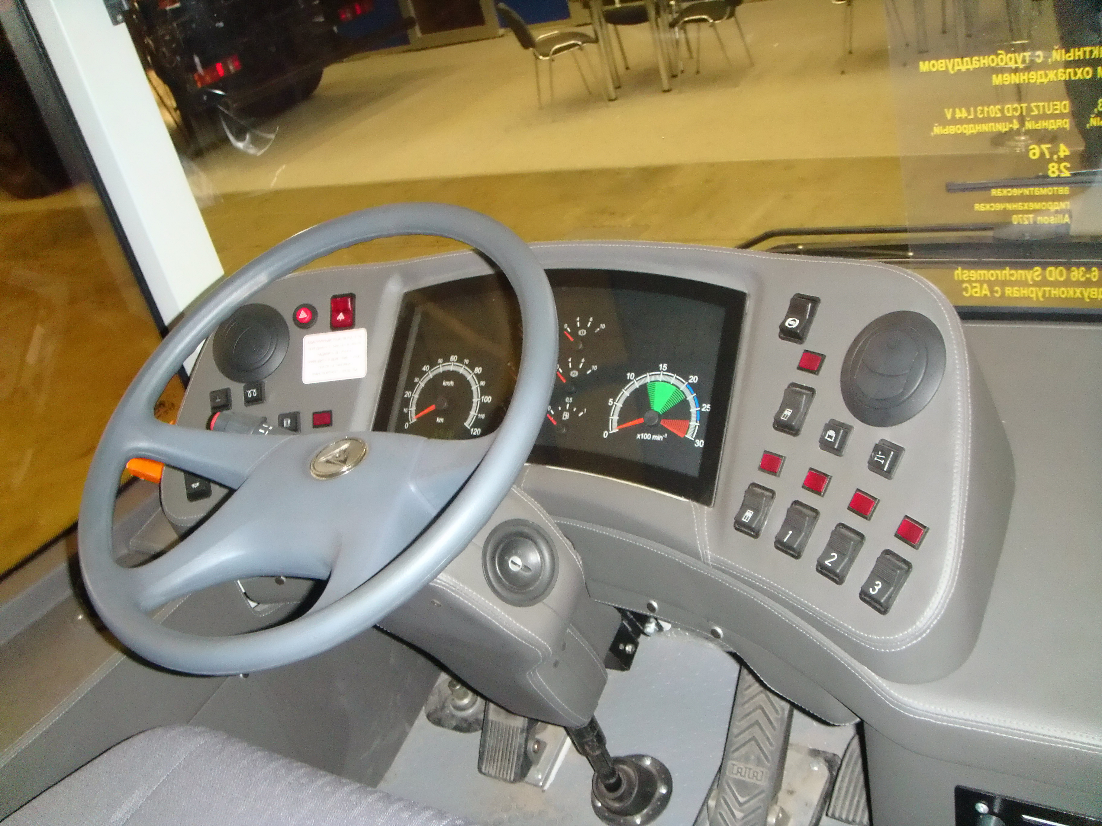 BAZ A11110 bus cockpit in Kiev, Ukraine. TIR 2010.